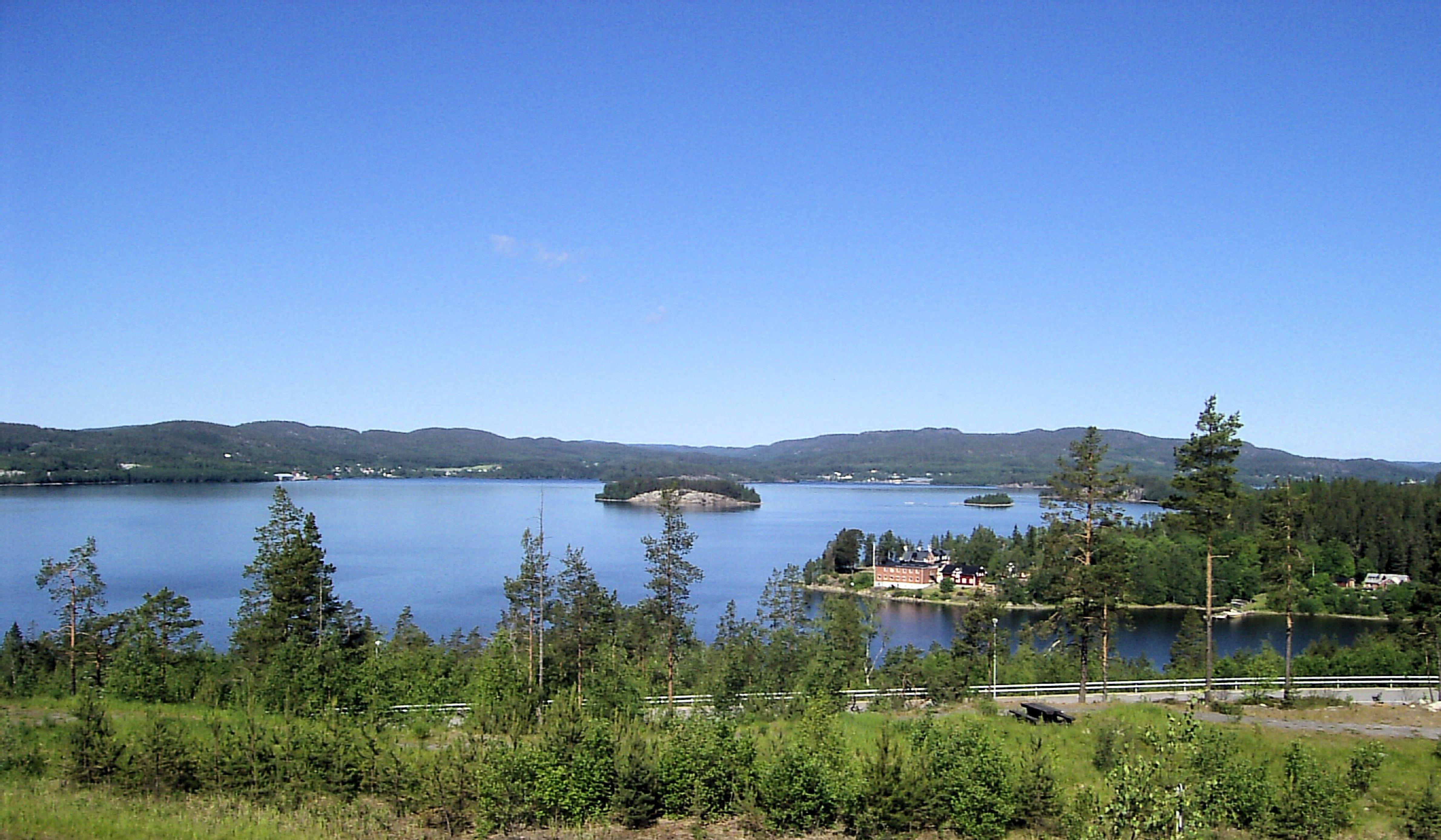 Ångermanälven